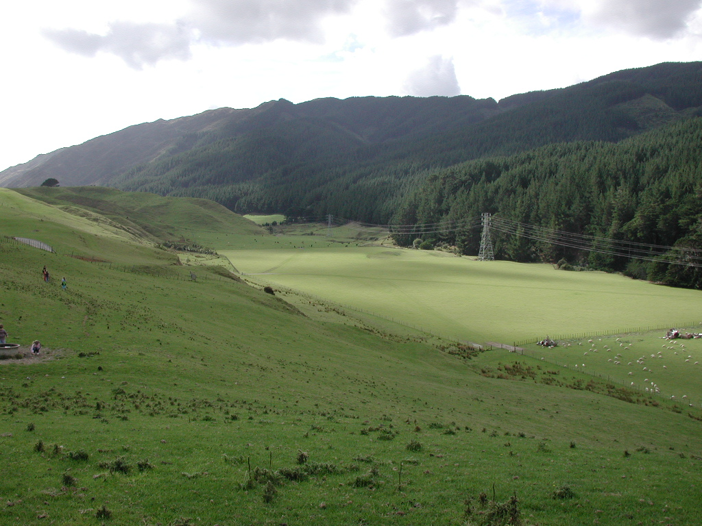 Transmission Gully in Battle Hill Farm, Pauatahanui, in 2008.